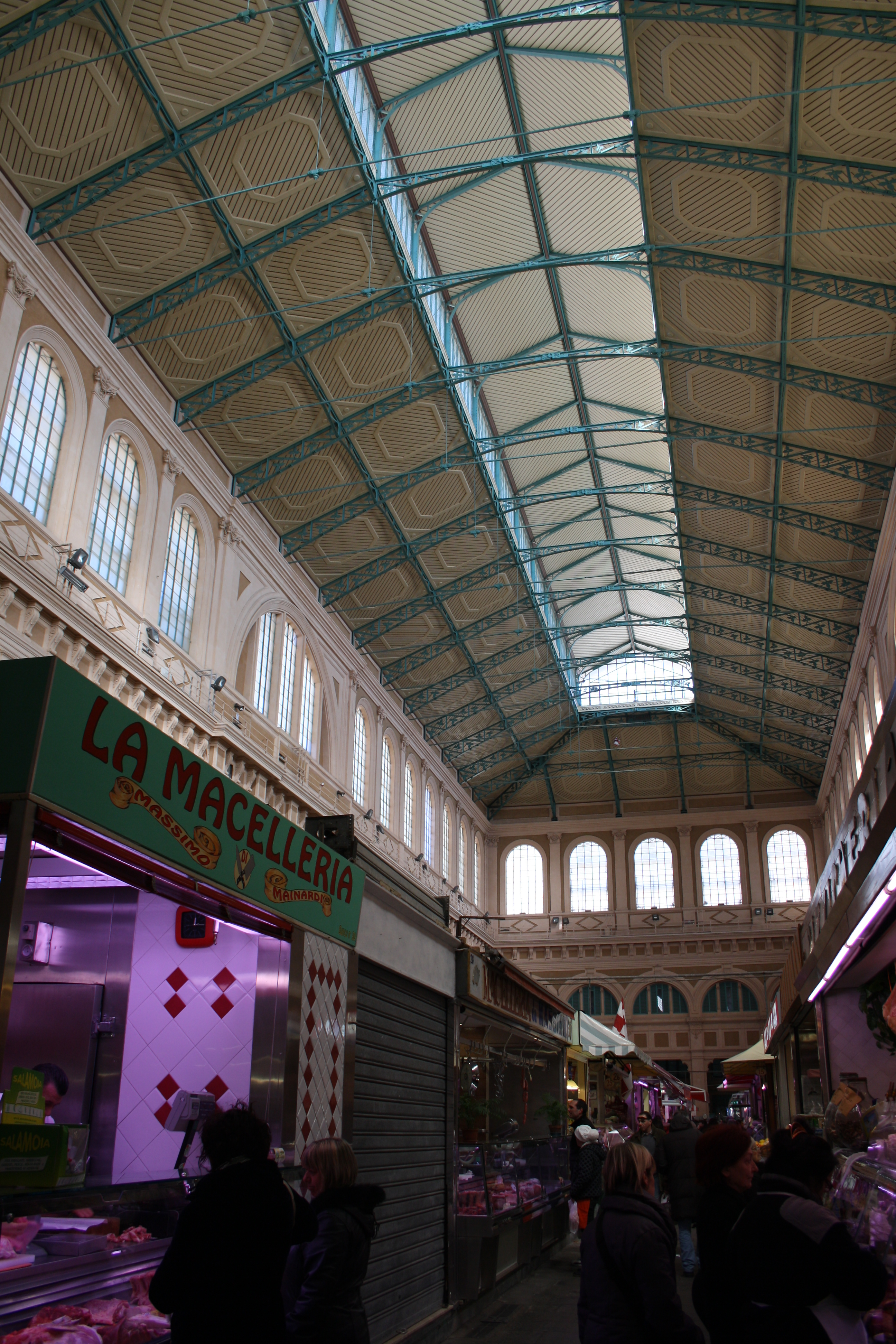 Italy, Livorno, Scali Aurelio Saffi, Mercato delle Vettovaglie. The general main hall.